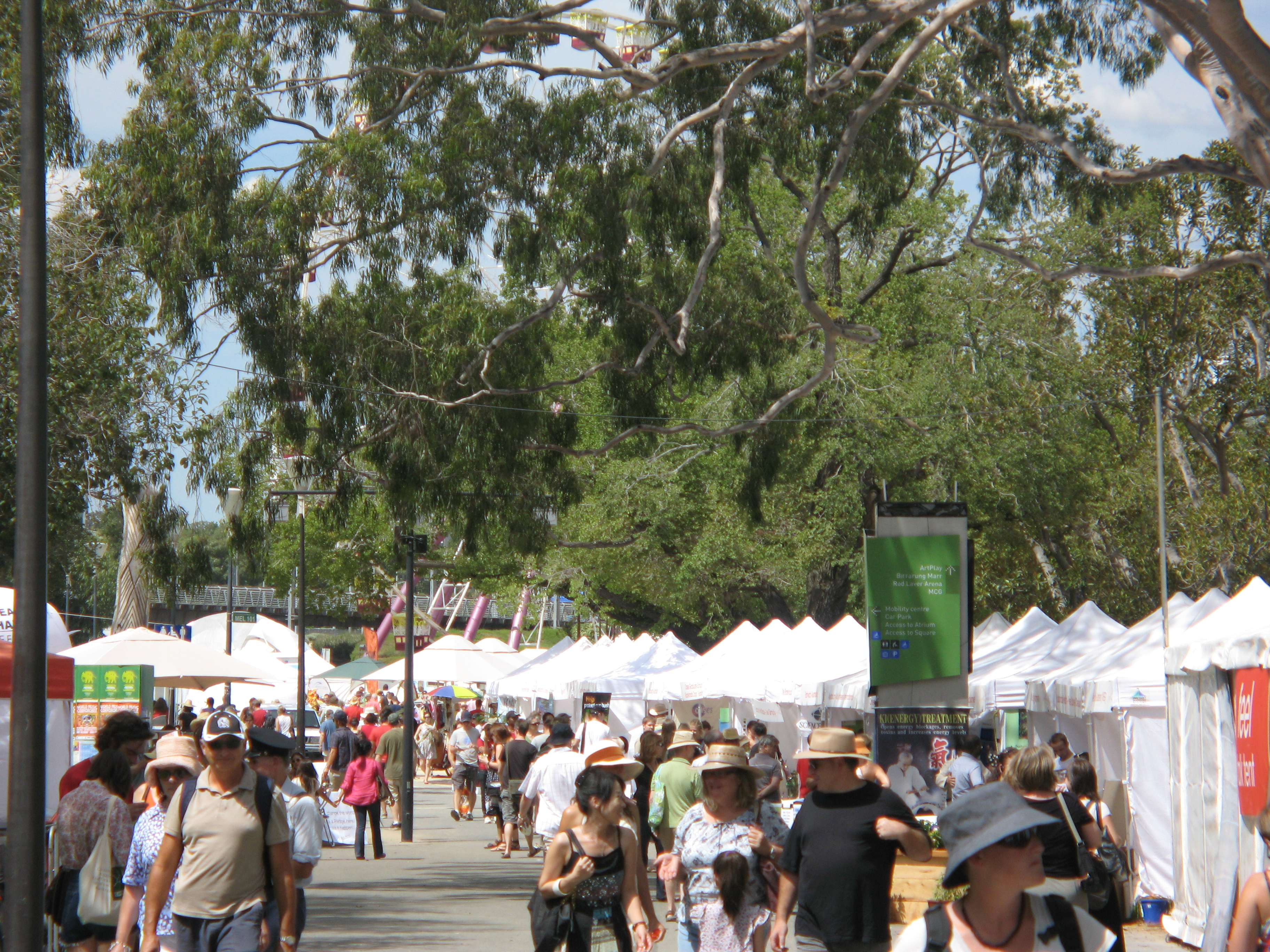 The Sustainable Living Festival 2010, Stalls on the riverside walk. Photo taken by Nick carson on Saturday 20 February 2010.